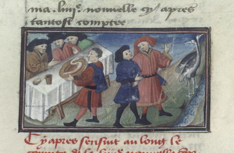 Boccaccio, Decameron, MS BNF Francais 239 f 173r